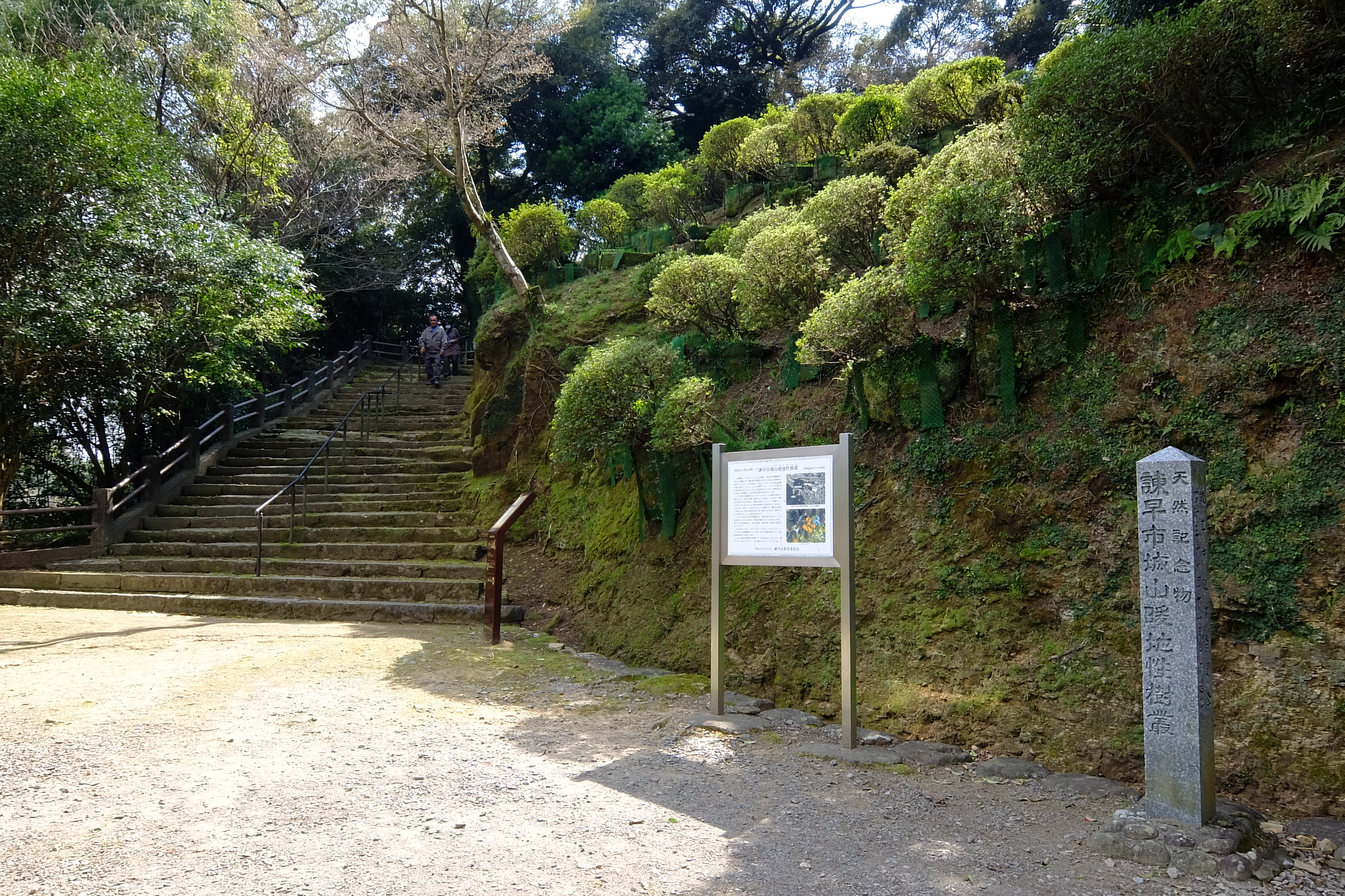 Isahaya Park in Isahaya, Nagasaki prefecture, Japan.